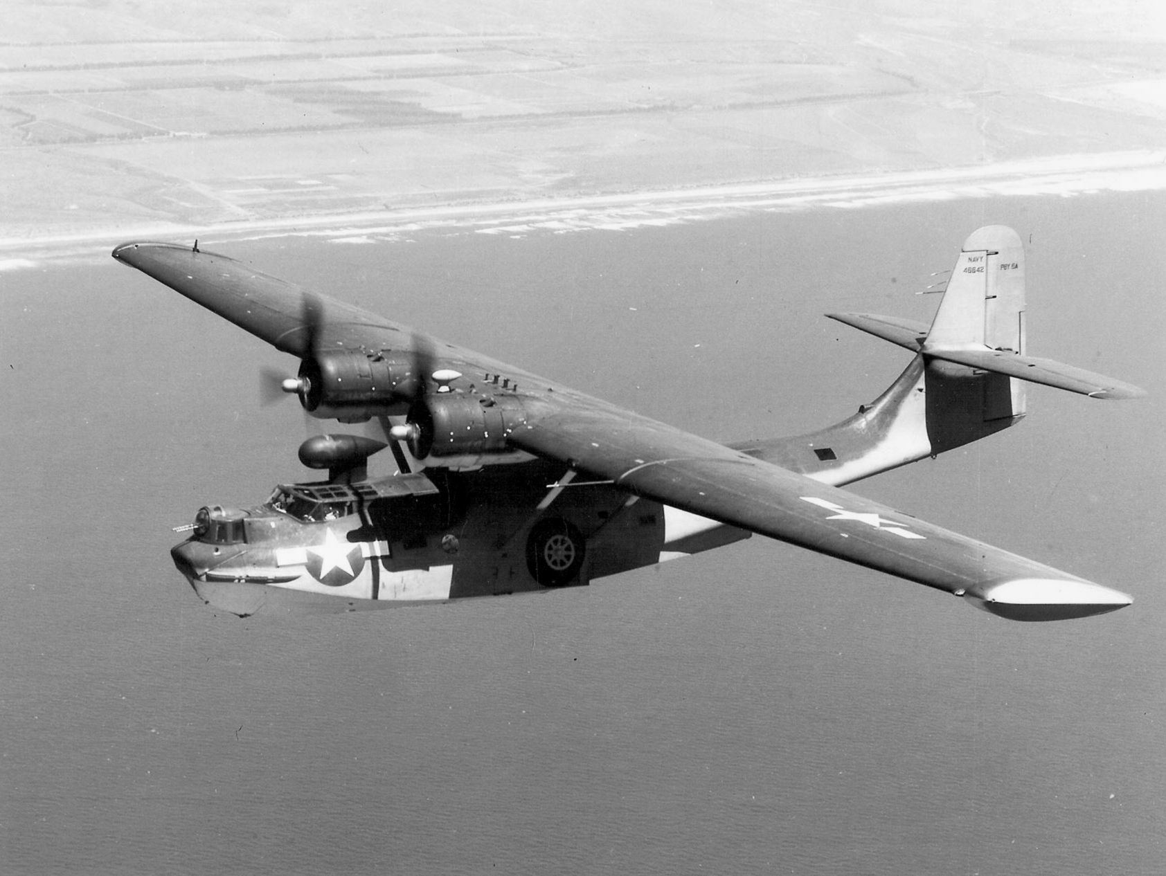 A U.S. Navy Consolidated PBY-6A Catalina (BuNo 46642) in flight. Note the radar pod located above cockpit between the engines.